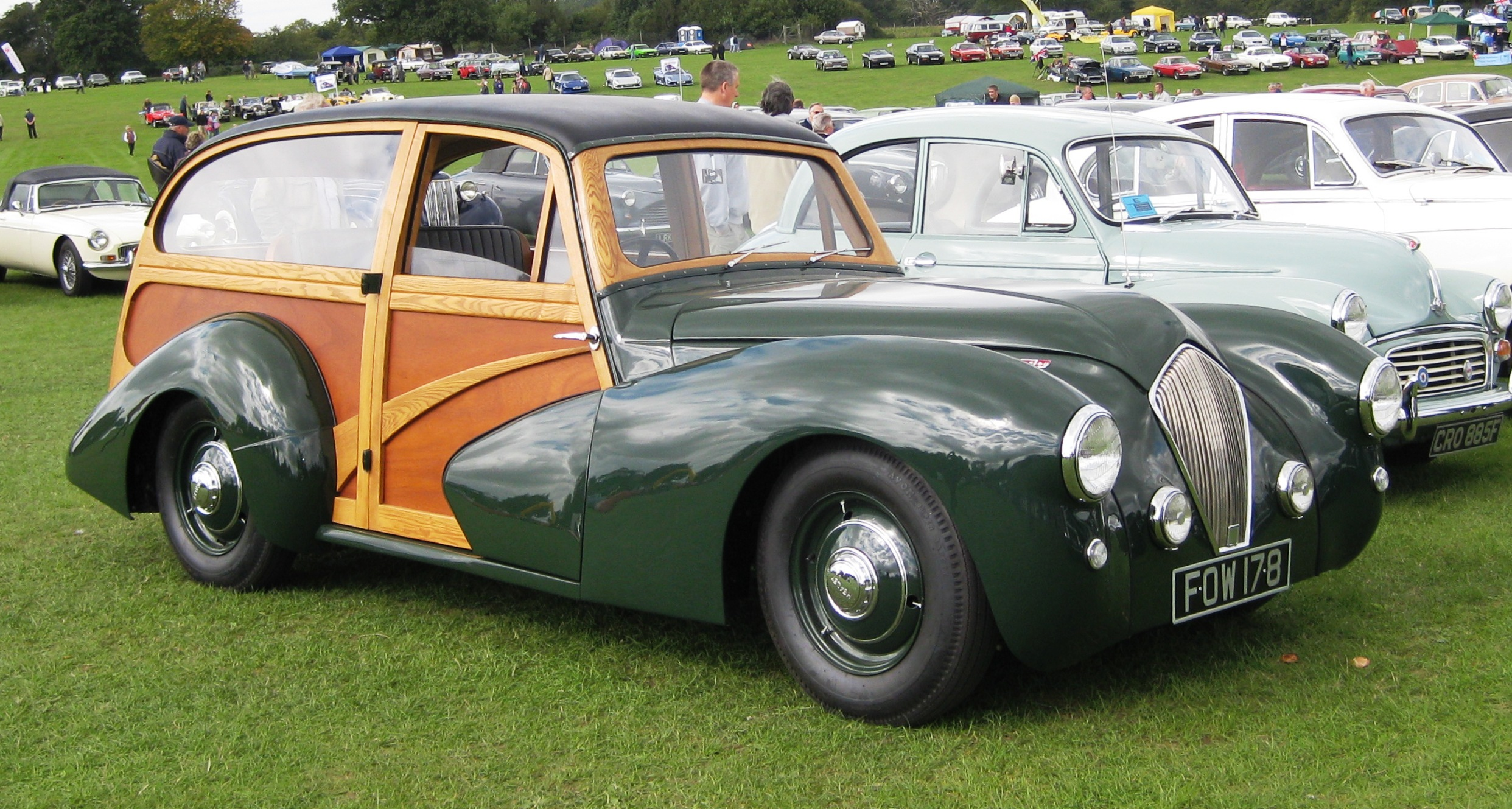 Healey-Westland based woody-style sports wagon. A total of 106 Healey Rolling Chassis was delivered to coachbuilders. H. G. Dobbs in Southampton received 16 of them (with the Riley engine) and built shooting breaks for them. It is likely that the pictured car is one of these cars